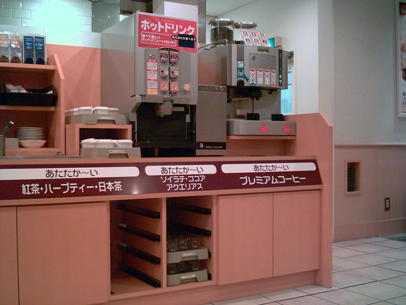 Gusto_Restaurant_japan photography day, 2006.10.26. photography person kici